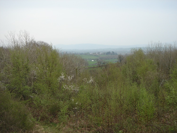 View from inner rampart of Mooghaun hill fort county Clare, Ireland